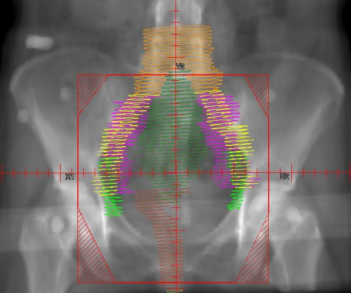 Example of a post-operative AP radiation therapy treatment field for Stage I-II Endometrial cancer used at Tufts/Brown residency program. Actual patient contours should guide field design. Superior border: Consider L5/S1 if PLND negative. Consider L4/L5 if no PLND or LN+. PORTEC used L5/S1, GOG 99 used L4/L5. Inferior border: inferior edge of pubic ramus Lateral borders: ~2cm lateral to bony pelvis, in order to cover lymph nodes Brown: rectum Orange: common illiac LNs; Yellow: external illiac LNs; Light Green: obturator LNs; Purple: internal illiac LNs; Dark Green: presacral LNs Please see the Lateral field